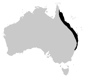 Distribution of the Dainty Green Tree Frog, Litoria gracilenta.